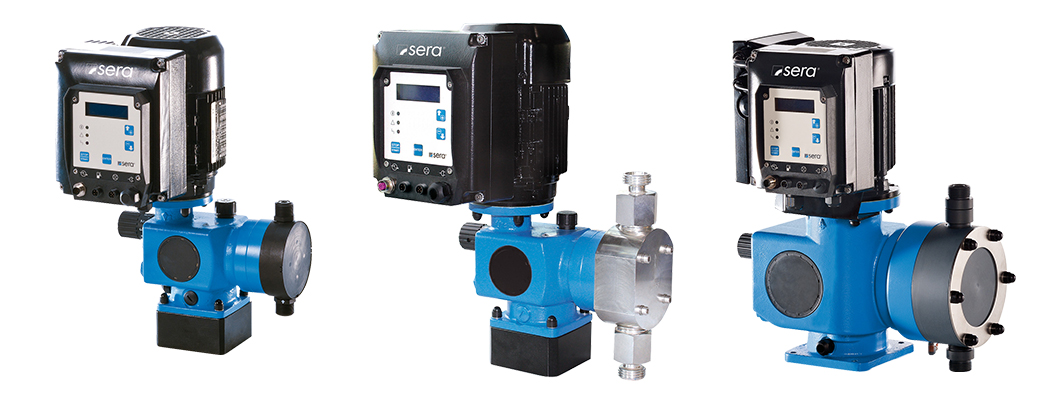 sera Metering pumps C409-410.2 controlable, for use in all industrial processes and food and beverage industry.